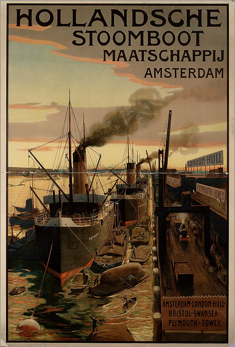 Koninklijke Nederlandse Stoomboot-Maatschappij